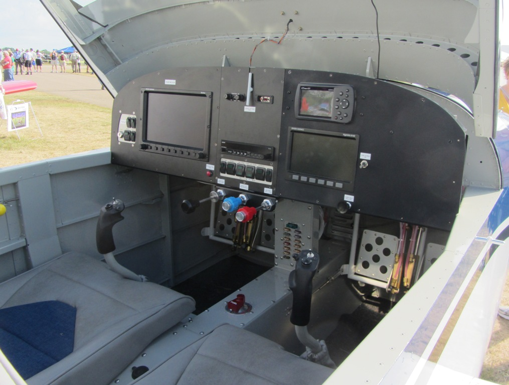 Vans RV-14